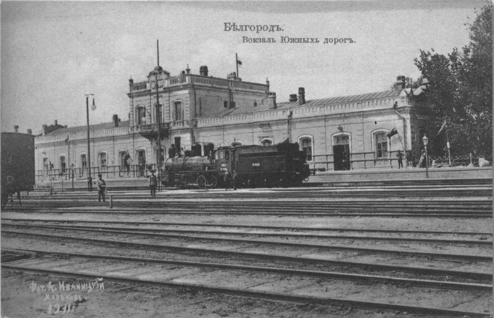 Belgorod Train Station in the beginning of XX century. View from railways. Postcard.